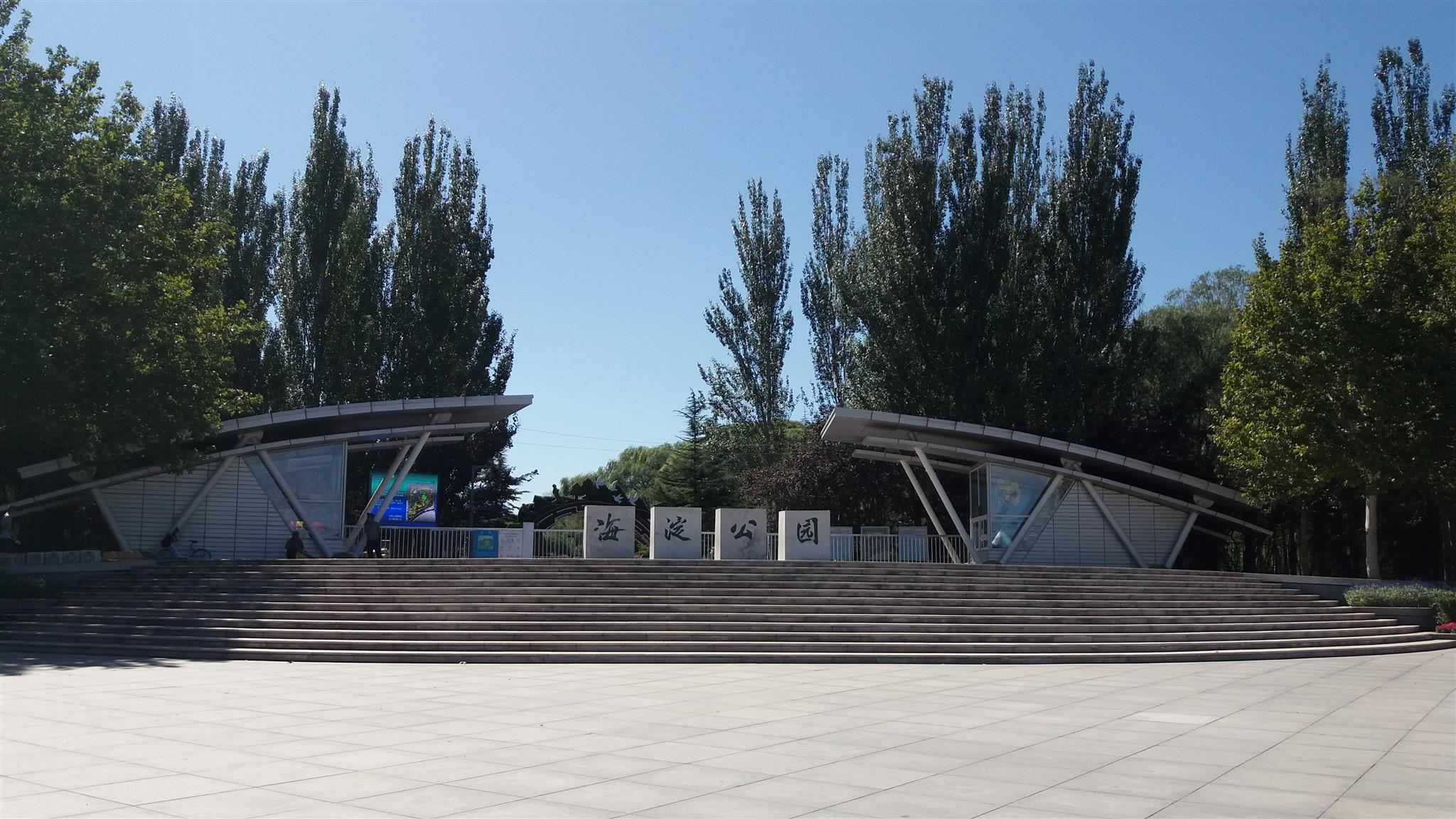 East Entrace of Haidian Park